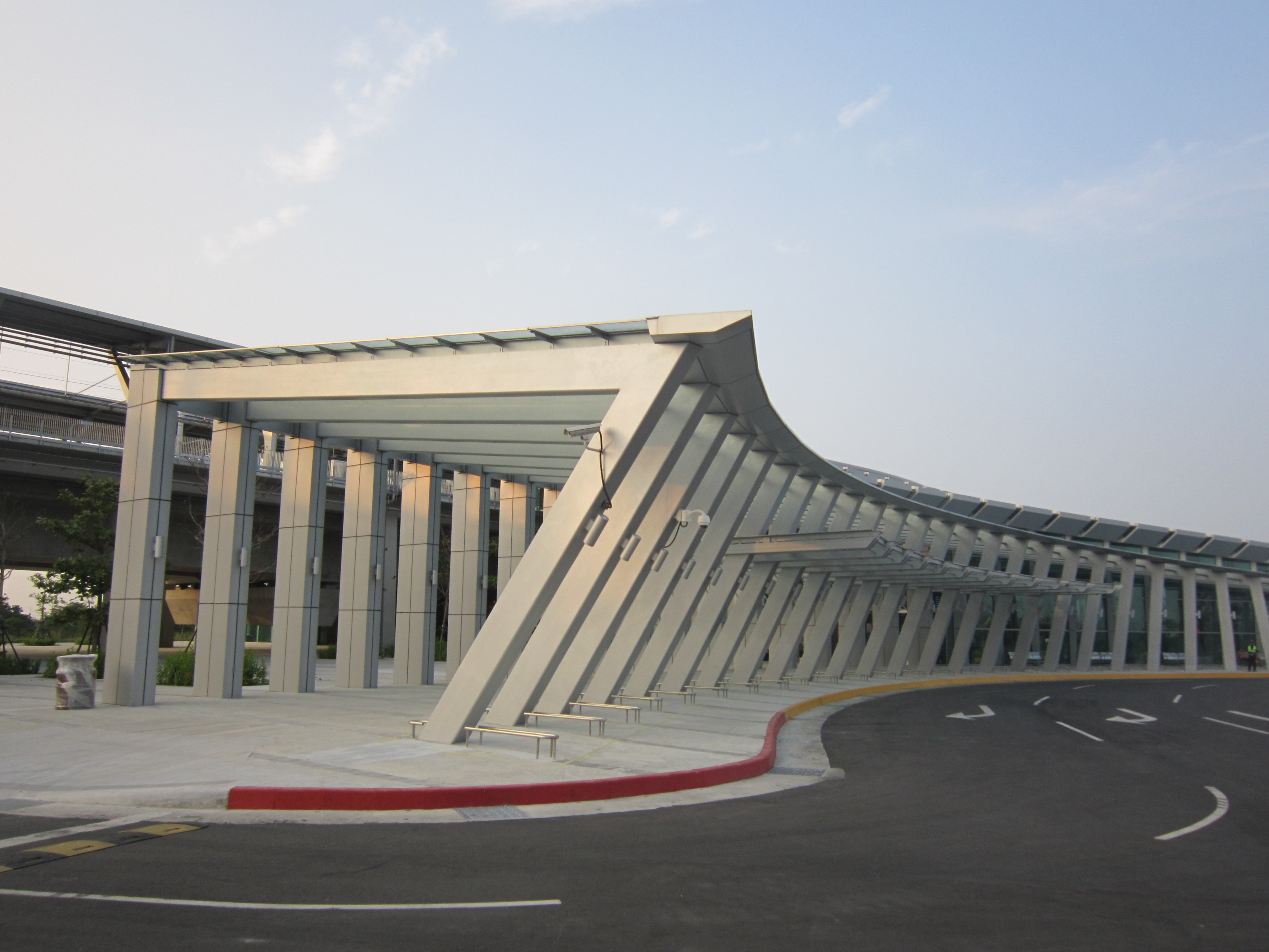 THSR Yunlin Station中文（台灣）: 台灣高鐵雲林車站站外迴廊